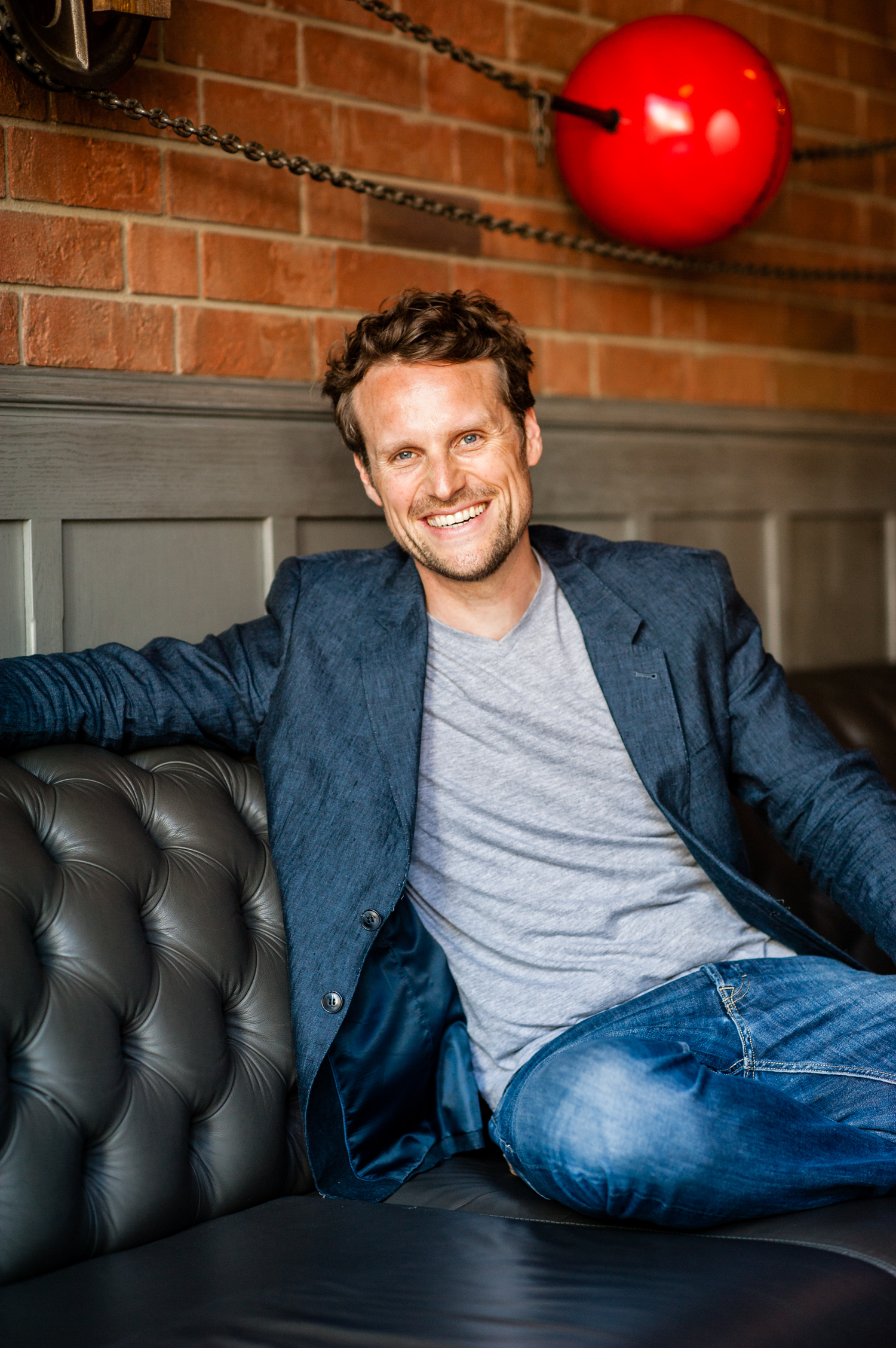 Helmut Adam, Editor of Mixology Magazine, Writer of Cocktail Books, Founder and Manager of the Bar Convent Berlin Trade Fair.